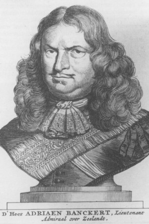 Portrait of Adriaen Banckert